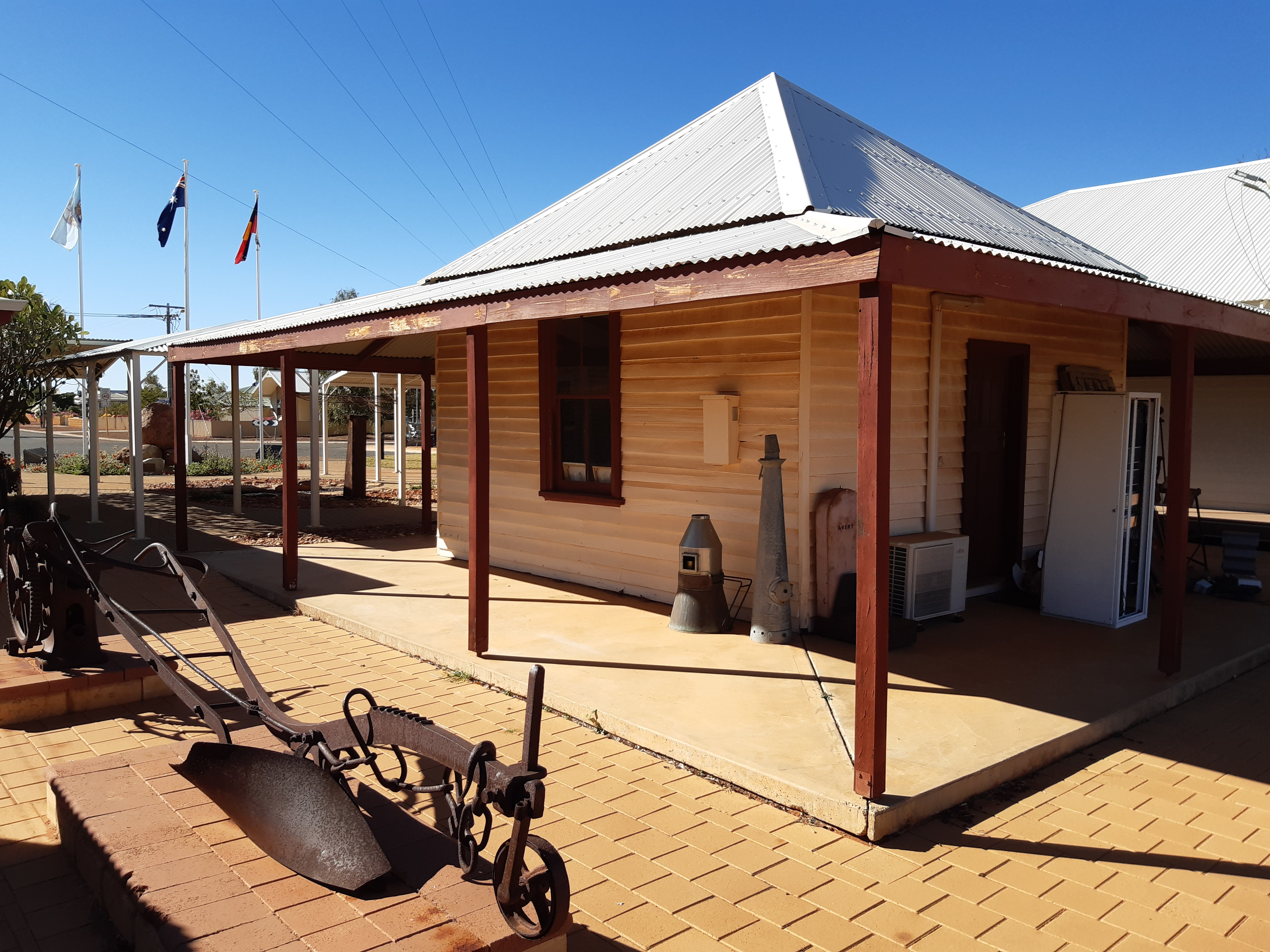 The heritage-listed Upper Gascoyne Road Board Office, Gascoyne Junction, Western Australia.